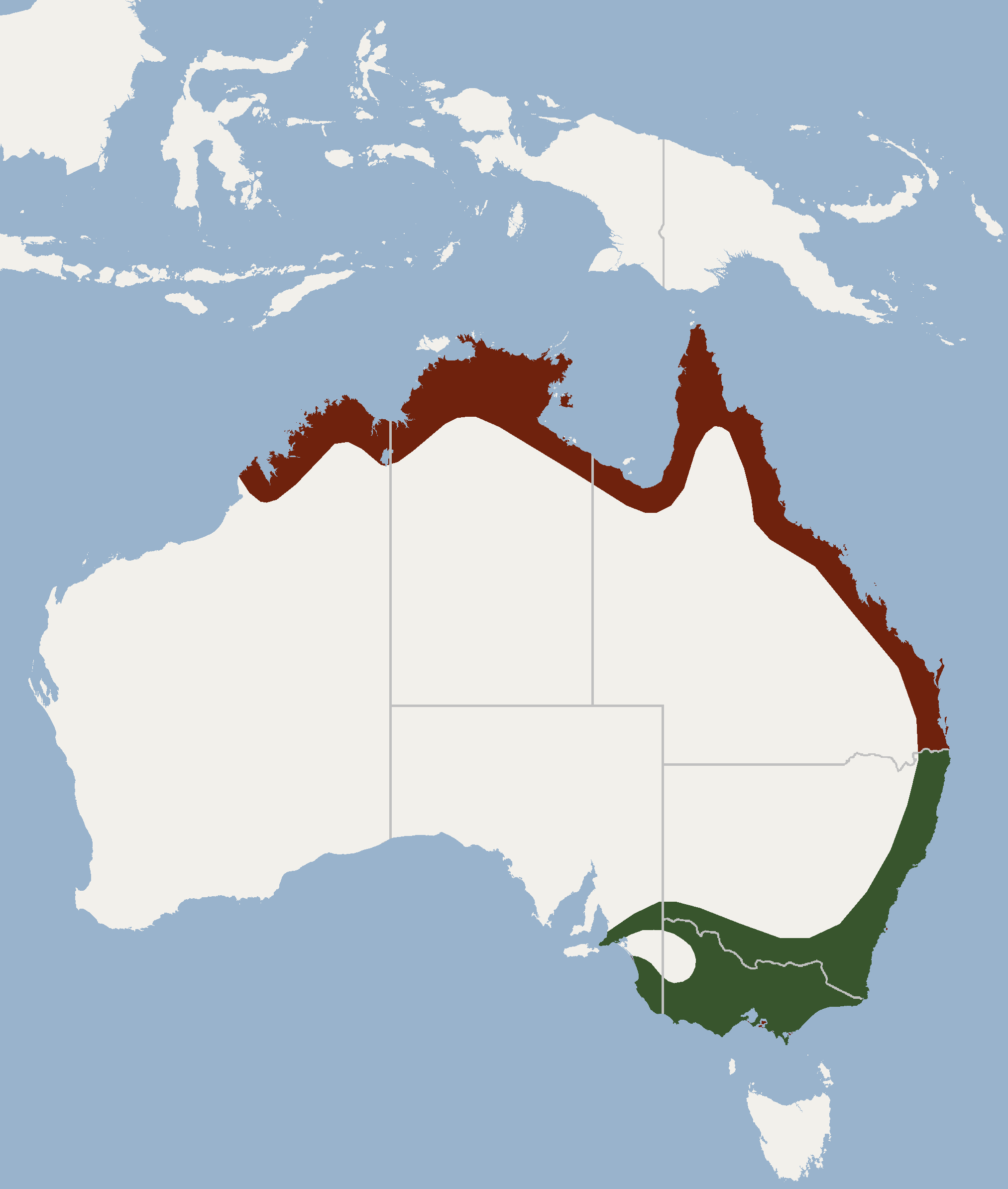 According to Parish, Richard & Hall, 2012